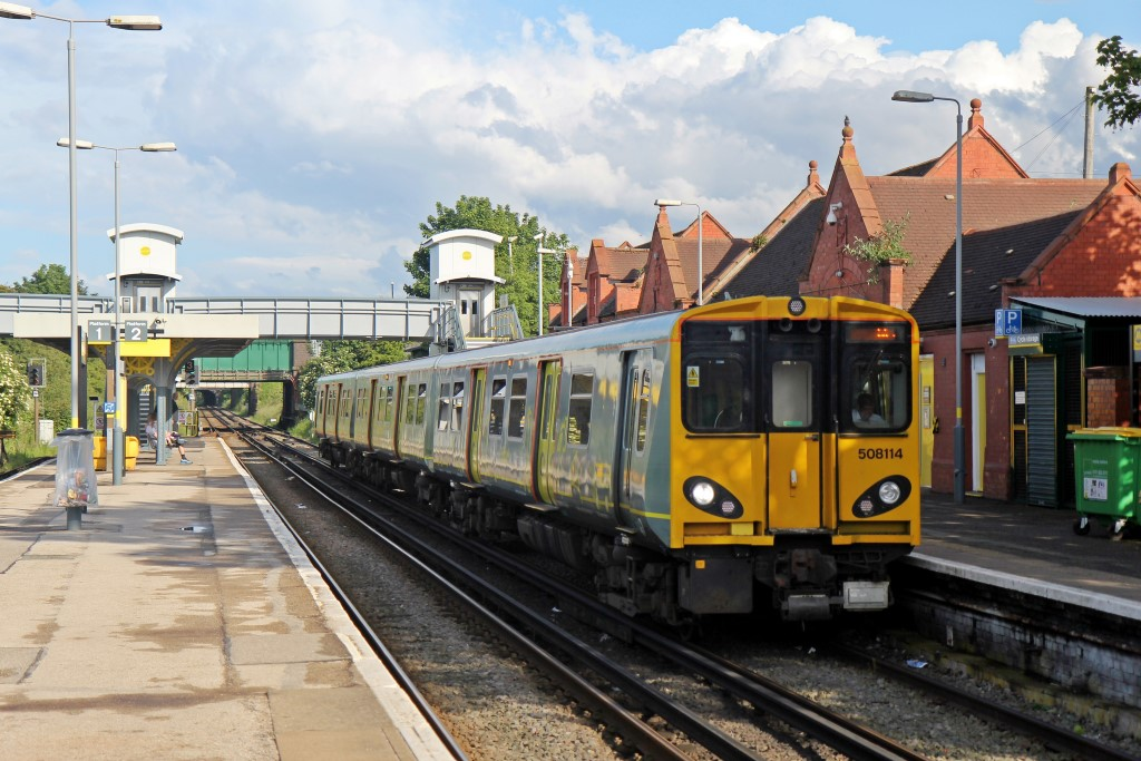 Merseyrail Class 508, 508114, Birkenhead North railway station